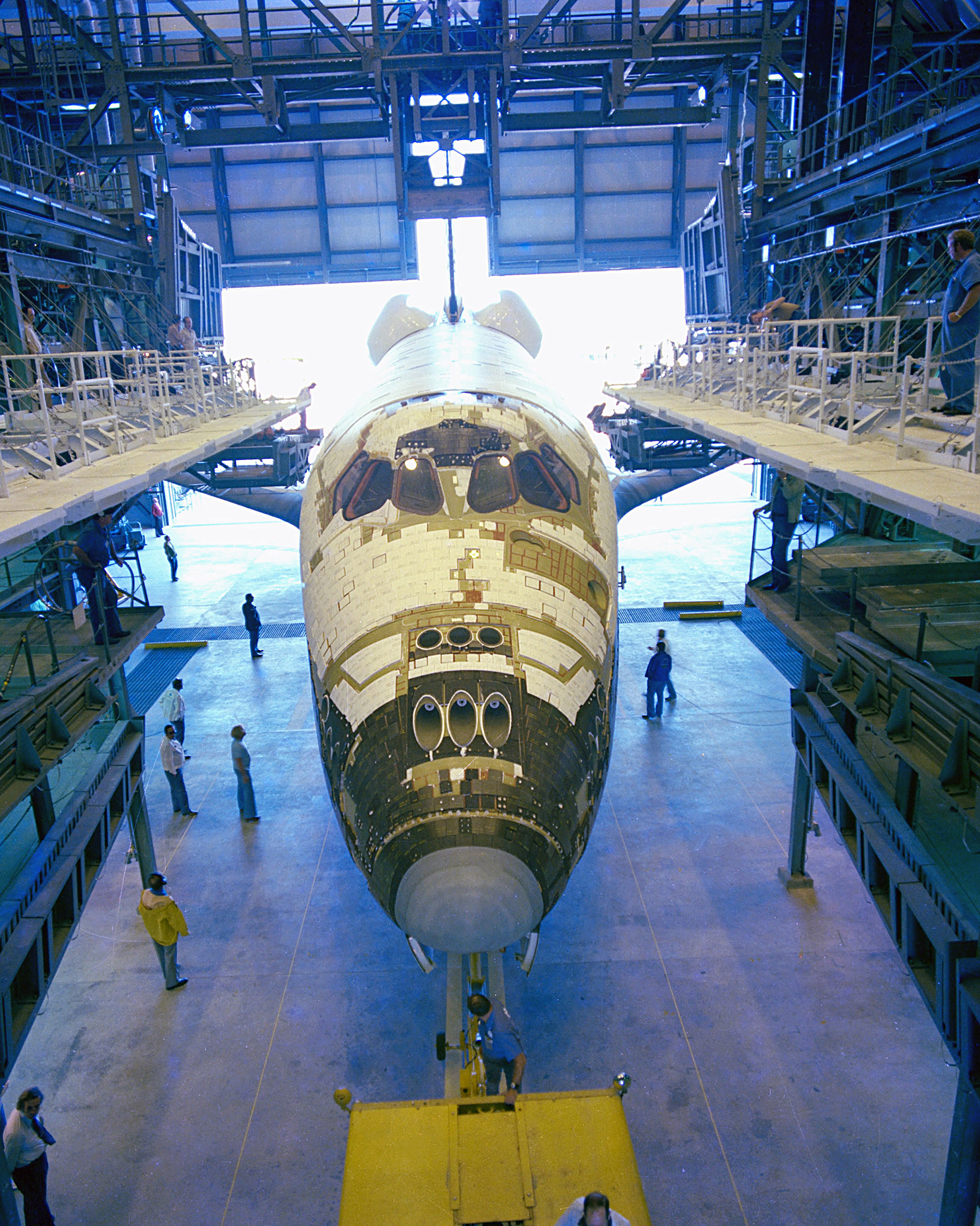 The Space Shuttle Columbia arrives in the Orbiter Processing Facility (OPF) at Kennedy Space Center on 25 March 1979. Note the numerous missing Thermal Protection System (TPS) tiles throughout the shuttle. Several thousand tiles had not been installed yet.